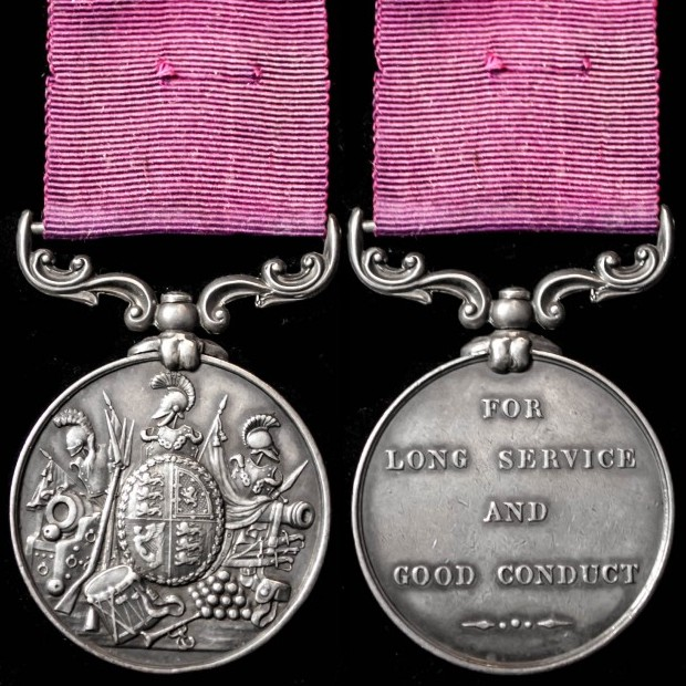 The Queen Victoria version of the Army Long Service and Good Conduct Medal with a swiveling ornamented scroll pattern suspender and smaller lettering on the reverse